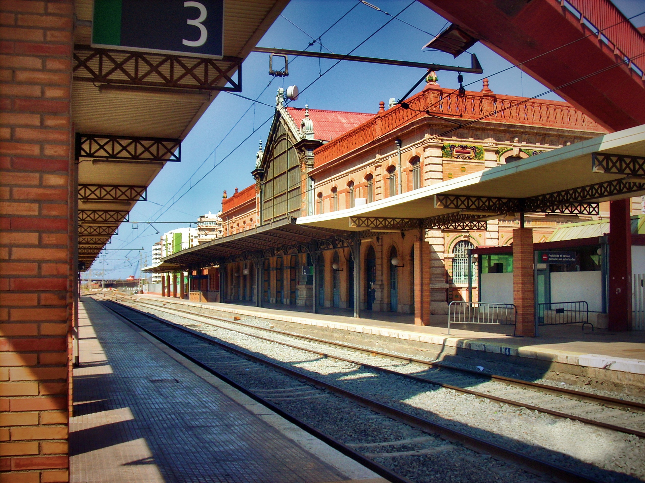 Train station of Almería, Spain.